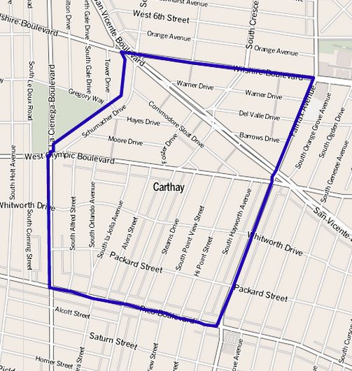 Map of the Carthay district (Carthay Circle district) in mid-city Los Angeles, California. This map may be incomplete, and may contain errors. Don't rely solely on it for navigation.